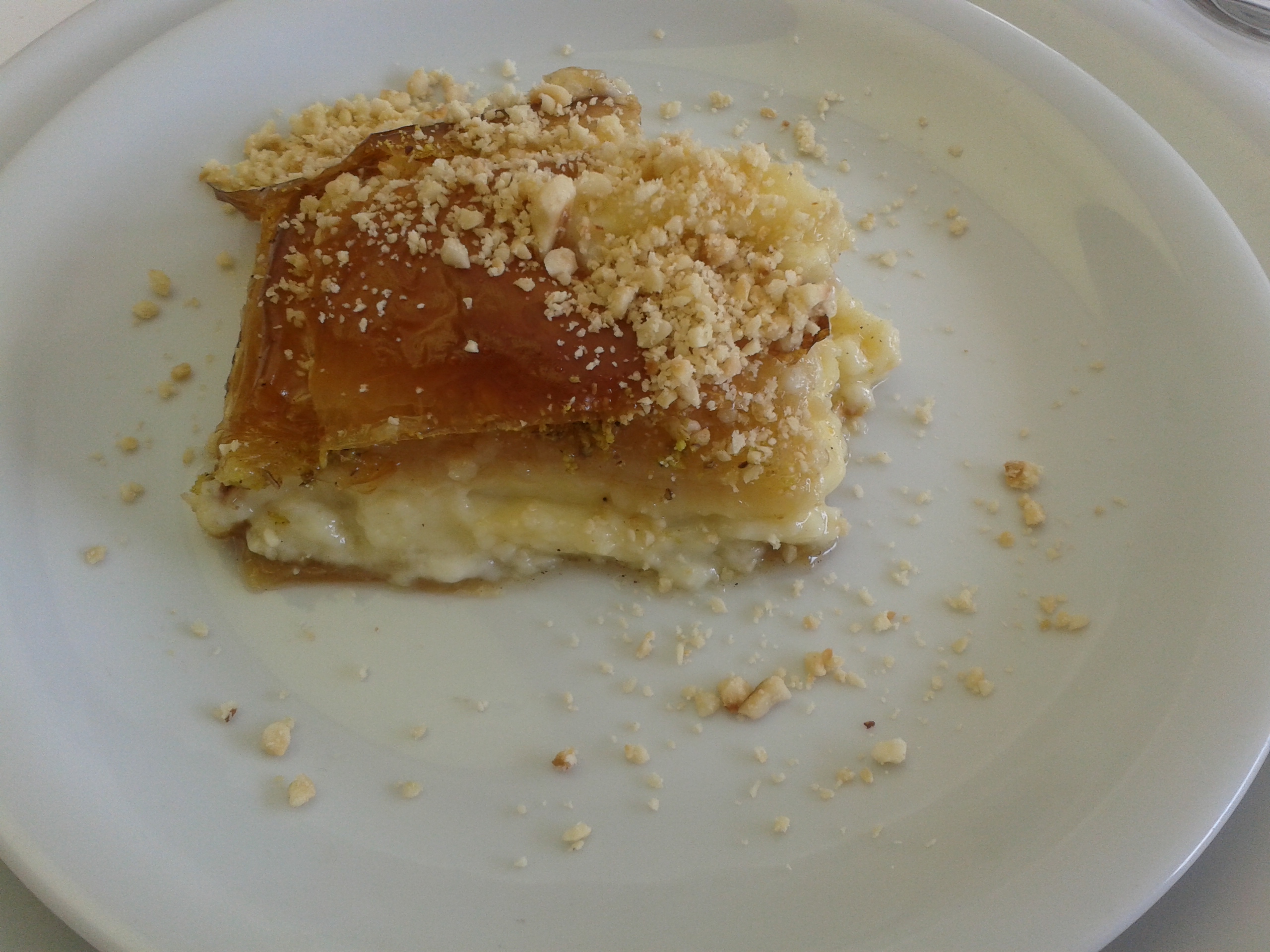 Real laz böreği (with black pepper)